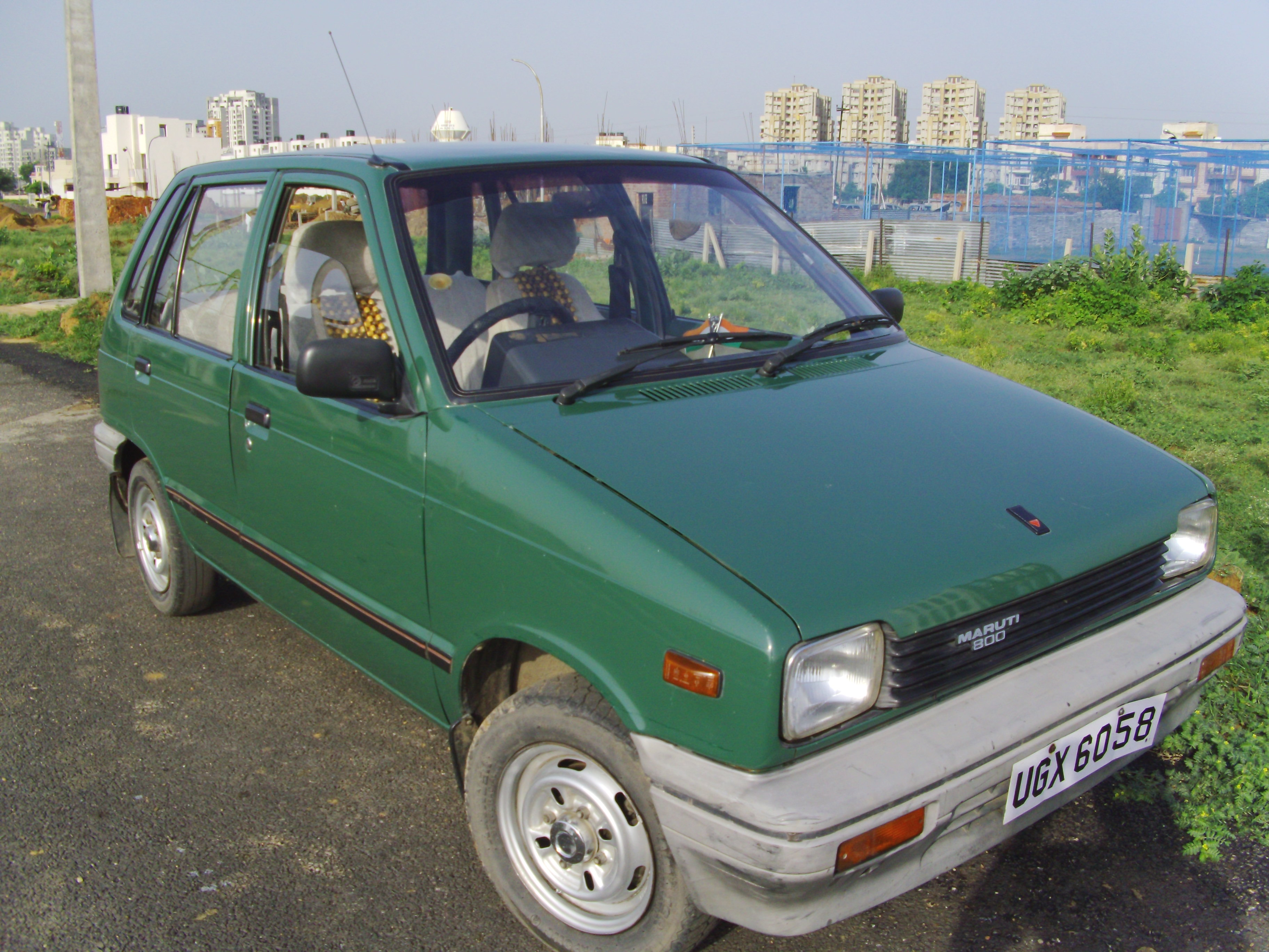 This Feb 1987 model was essentially an upgrade from SS80 to Aerodynamic and more spacious CA71 chassis housing the same 796cc F8B motor.